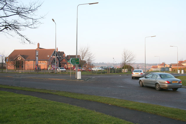 Barrowby Road, Grantham. A large roundabout on the Barrowby Road gives access to the Barrowby Gate estate to the south and new housing (just into SK9036) to the north east. The large pub on the opposite side of the road is the first major building you come across entering Grantham from the A52/A1 junction. The village on the top of the hill in the distance is Great Gonerby in SK8938 and the mass of housing to the far right is Gonerby Hill Foot in SK9037